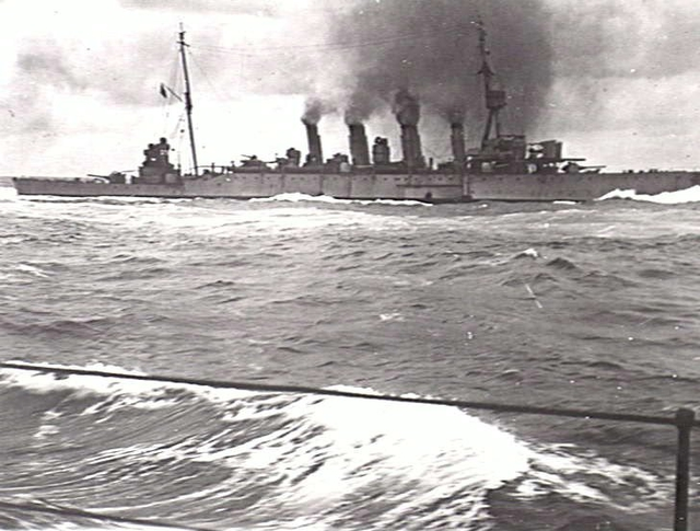 Australian War Memorial image 301007. HMAS Melbourne operating with the British Grand Fleet in 1918. She is carrying a Sopwith Camel on her forward six inch gun turret.